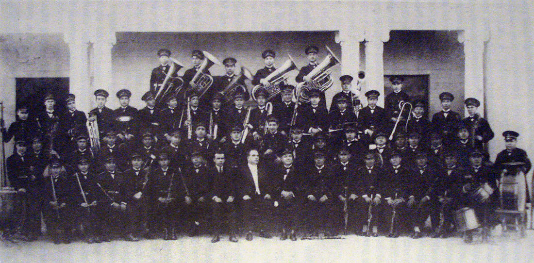 Former City Band of Porto Alegre in 1925. Unknown author. Joaquim Felizardo Museum, Porto Alegre.